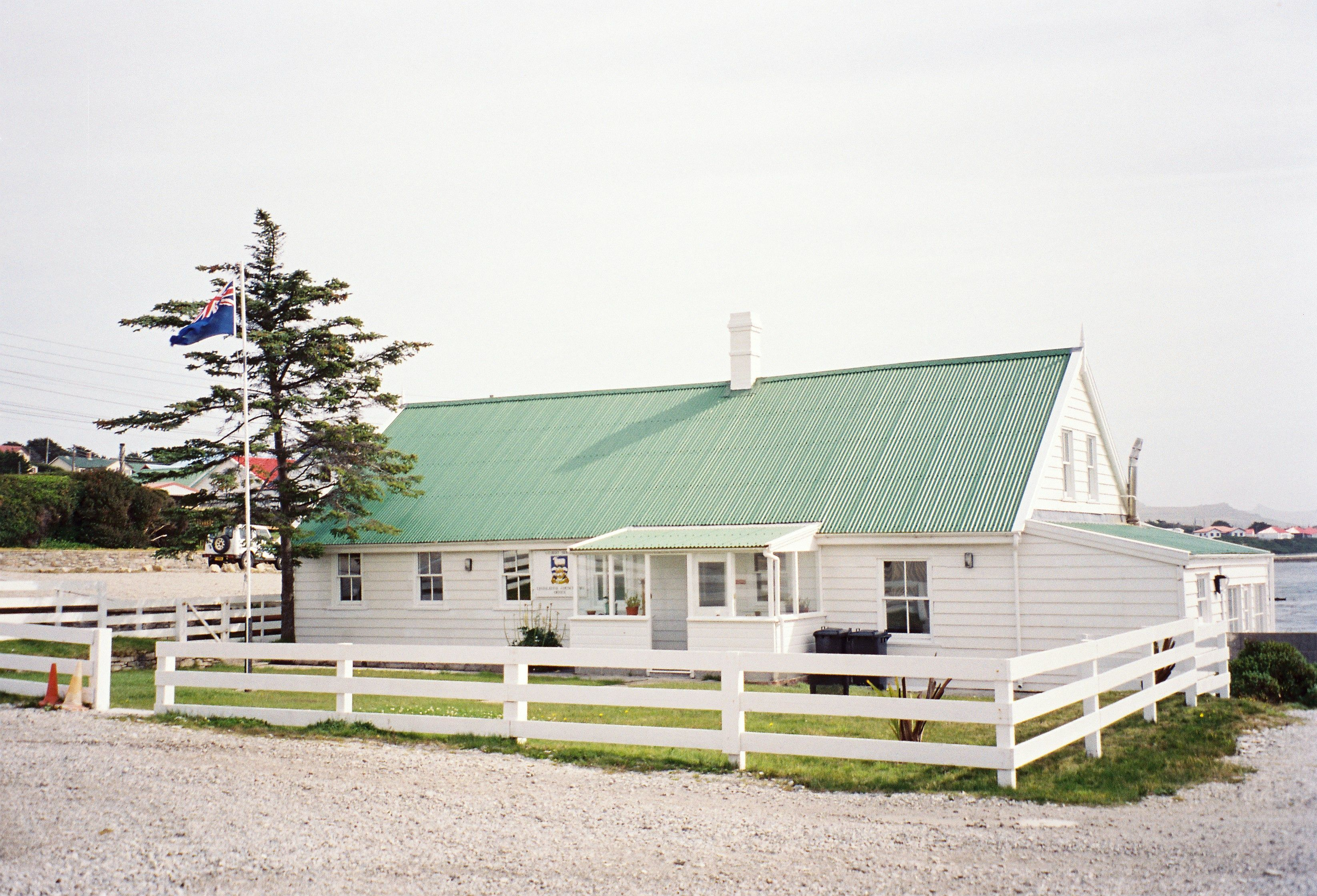 Falklands Legislative Council's premises at Gilbert House, Stanley, Falkland Islands